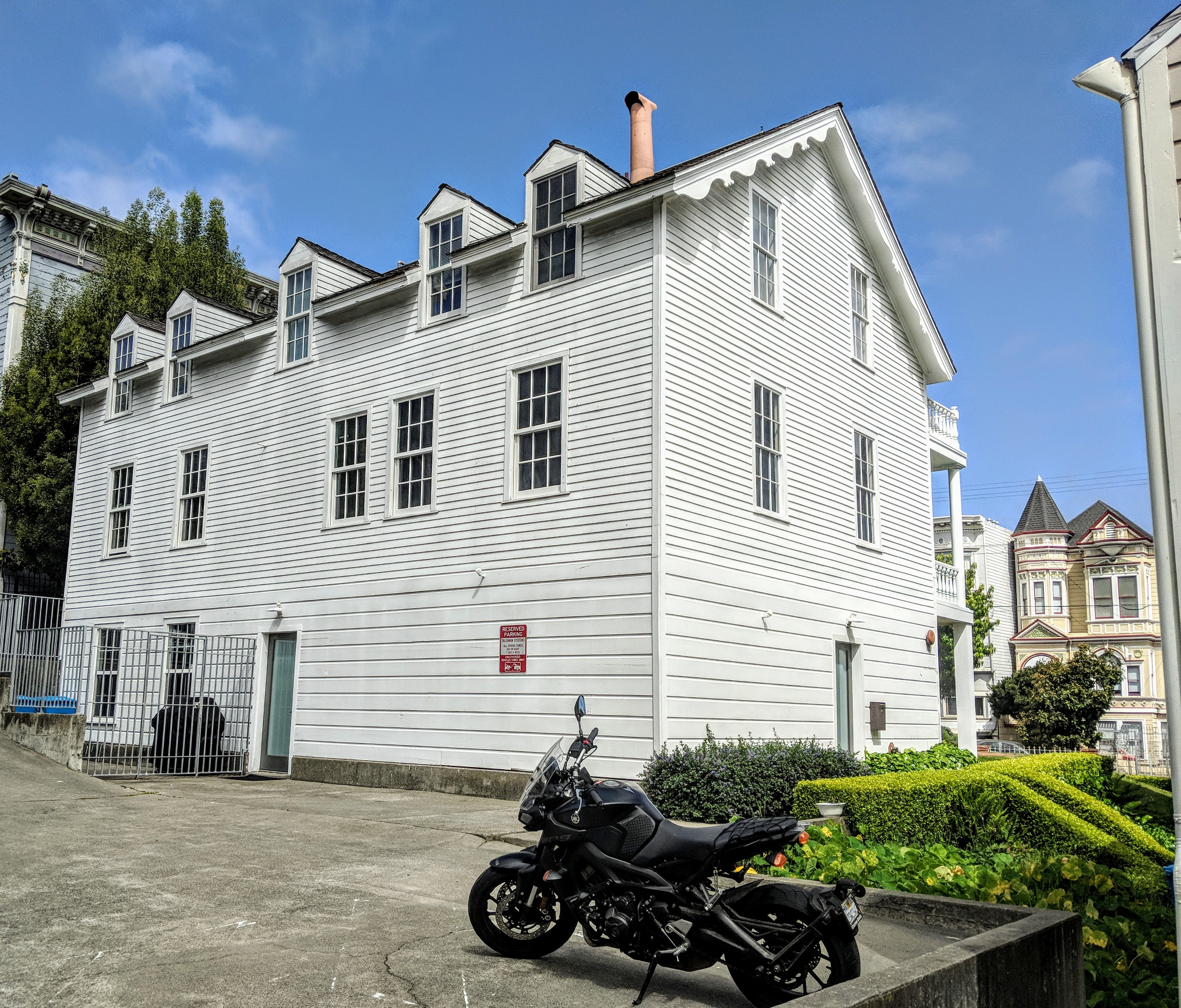 Back and side of Abner Phelps House, San Francisco. Photo by Jim Heaphy.